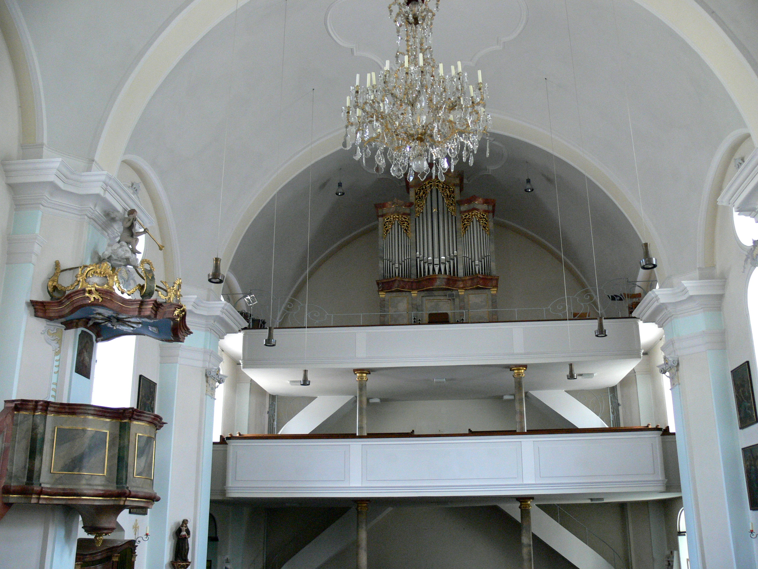 Saint Sigismund parish church in Strobl, Salzburg ( Austria ). Church galleries and pulpit.